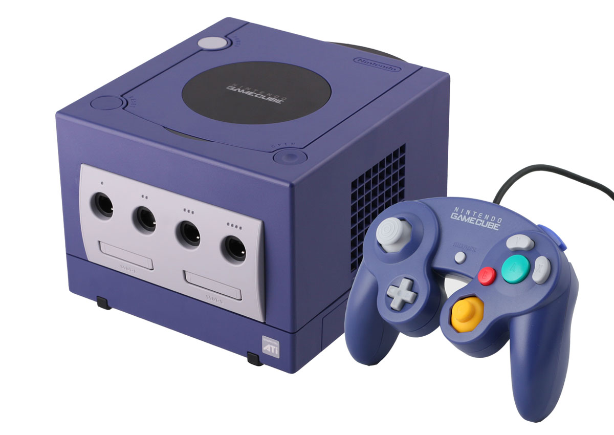 Nintendo Gamecube Console with controller